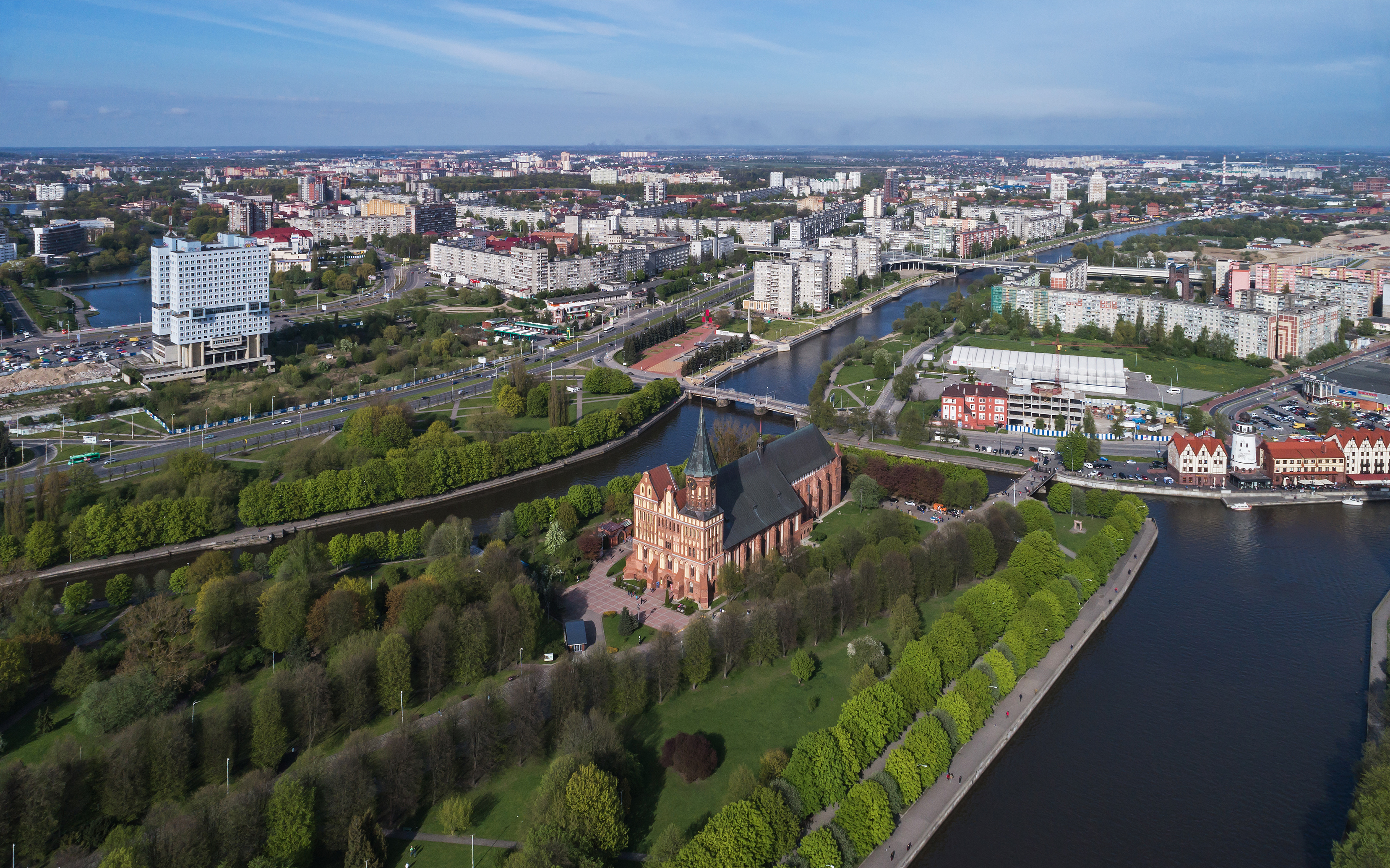 Aerial photo, in the foreground: historical Lutheran cathedral in Kaliningrad formerly Königsberg, Kaliningrad Oblast (Russia).